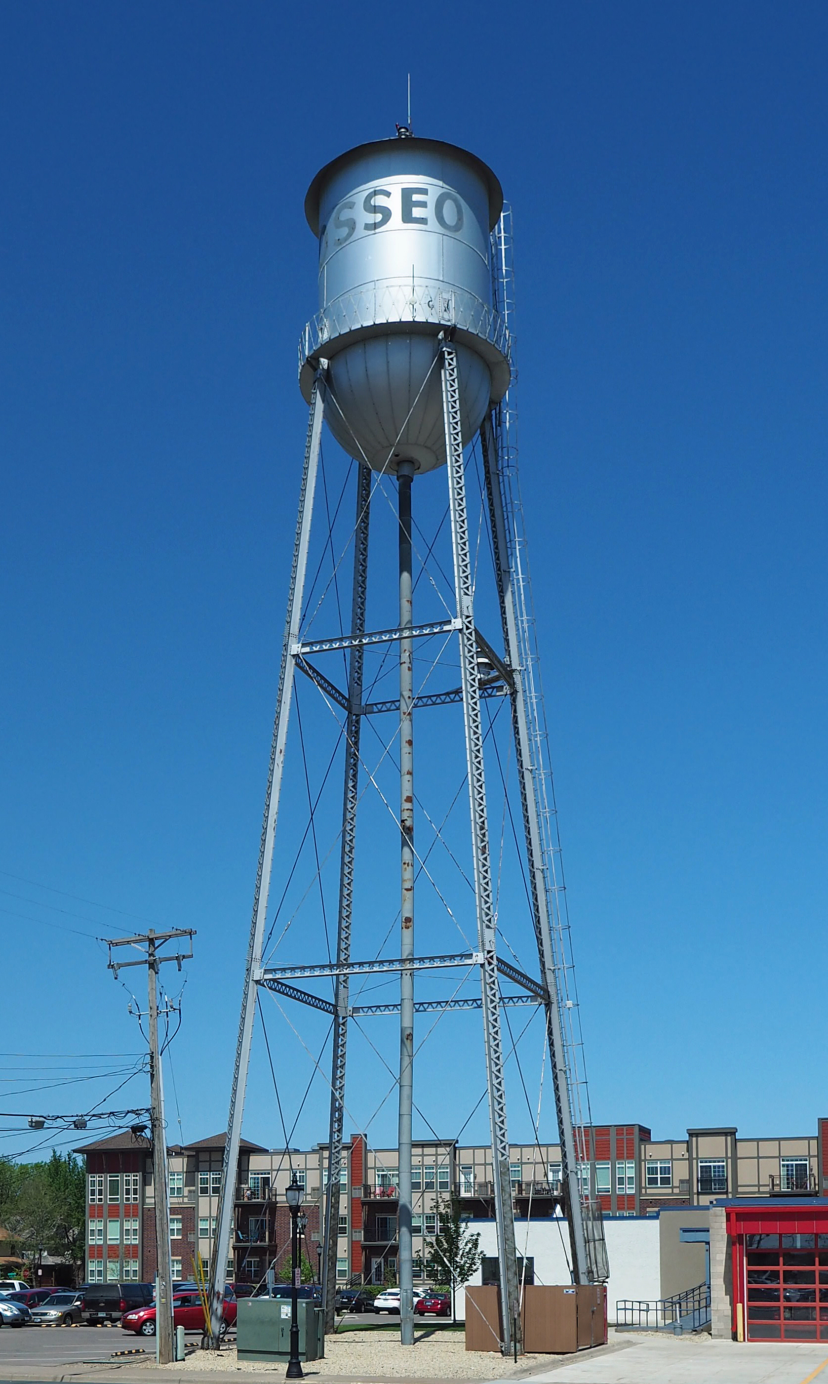 Osseo Water Tower, 25 4th St, Osseo, Minnesota, USA. Viewed from the south-southeast.